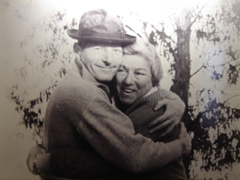 Danny Kaye with Lotte Eisenberg, manager of Galei Kinneret (from the Galei Kinneret hotel historical exhibition)